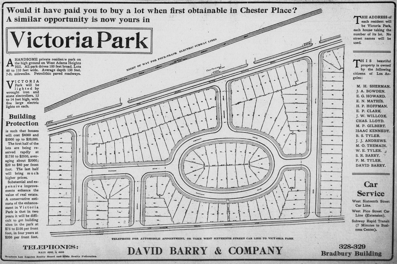 Advertisement of Victoria Park subdivision, Los Angeles, California, including a map, in the Los Angeles Sunday Herald, May 26, 1907